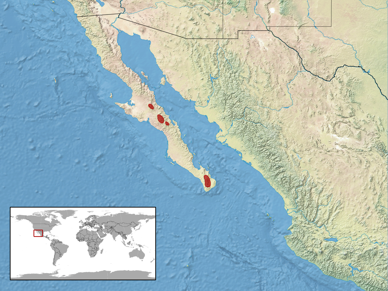 geographic distribution of Plestiodon lagunensis